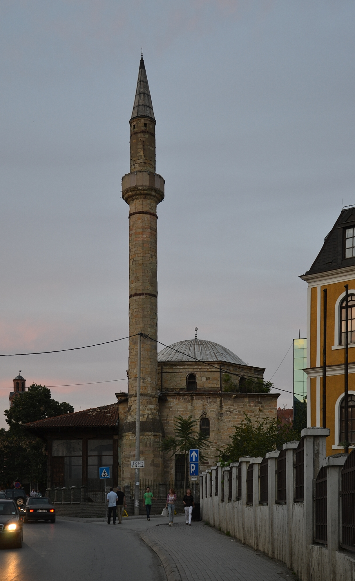 Jashar Pasha Mosque in Pristina, Kosovo